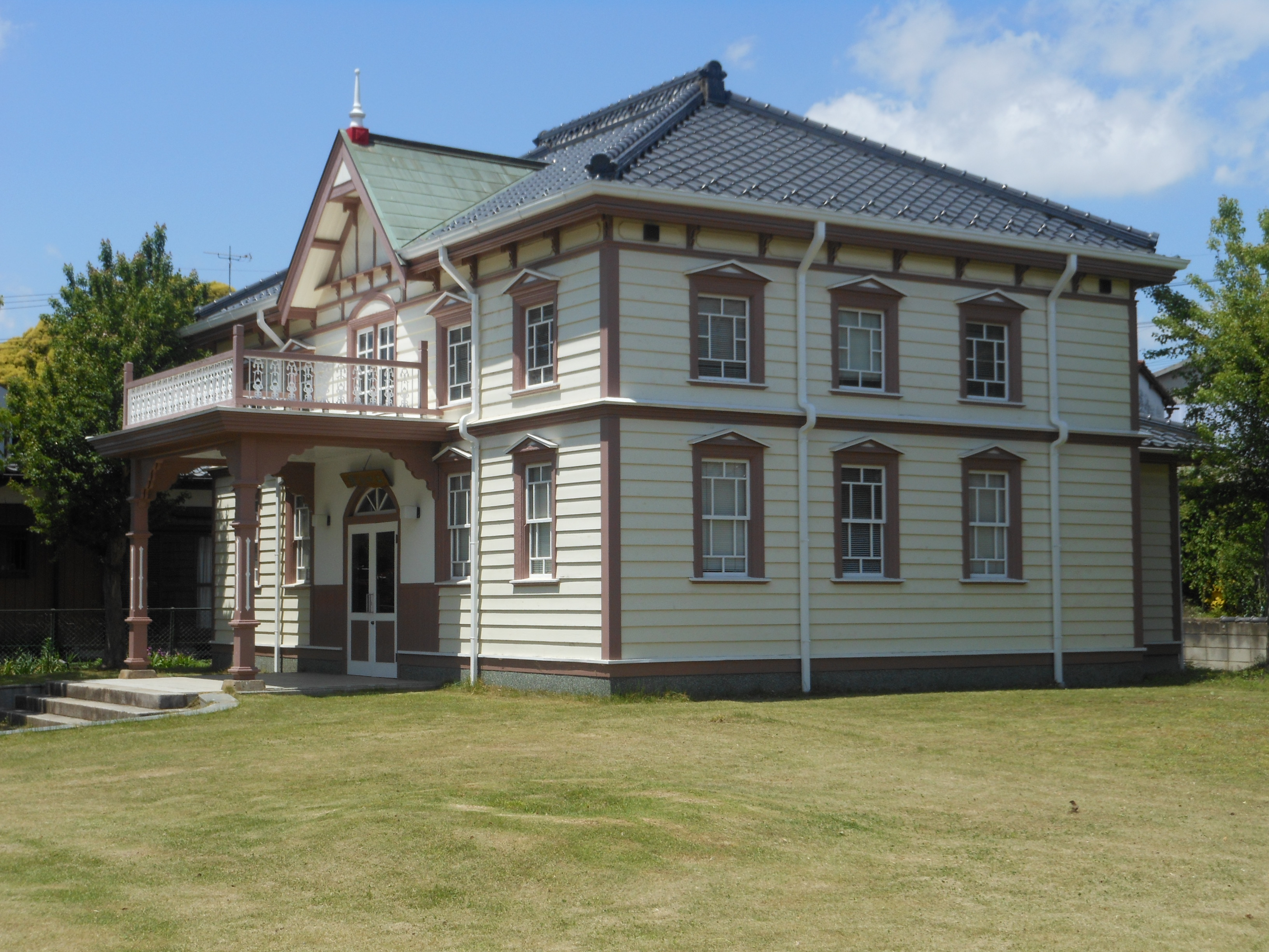 It is the Nisui Kaikan or Two Water Hall, which is in Joso public library's garden, city of Joso, Ibaraki, Japan. It was used for Mitsukaido Town Office.